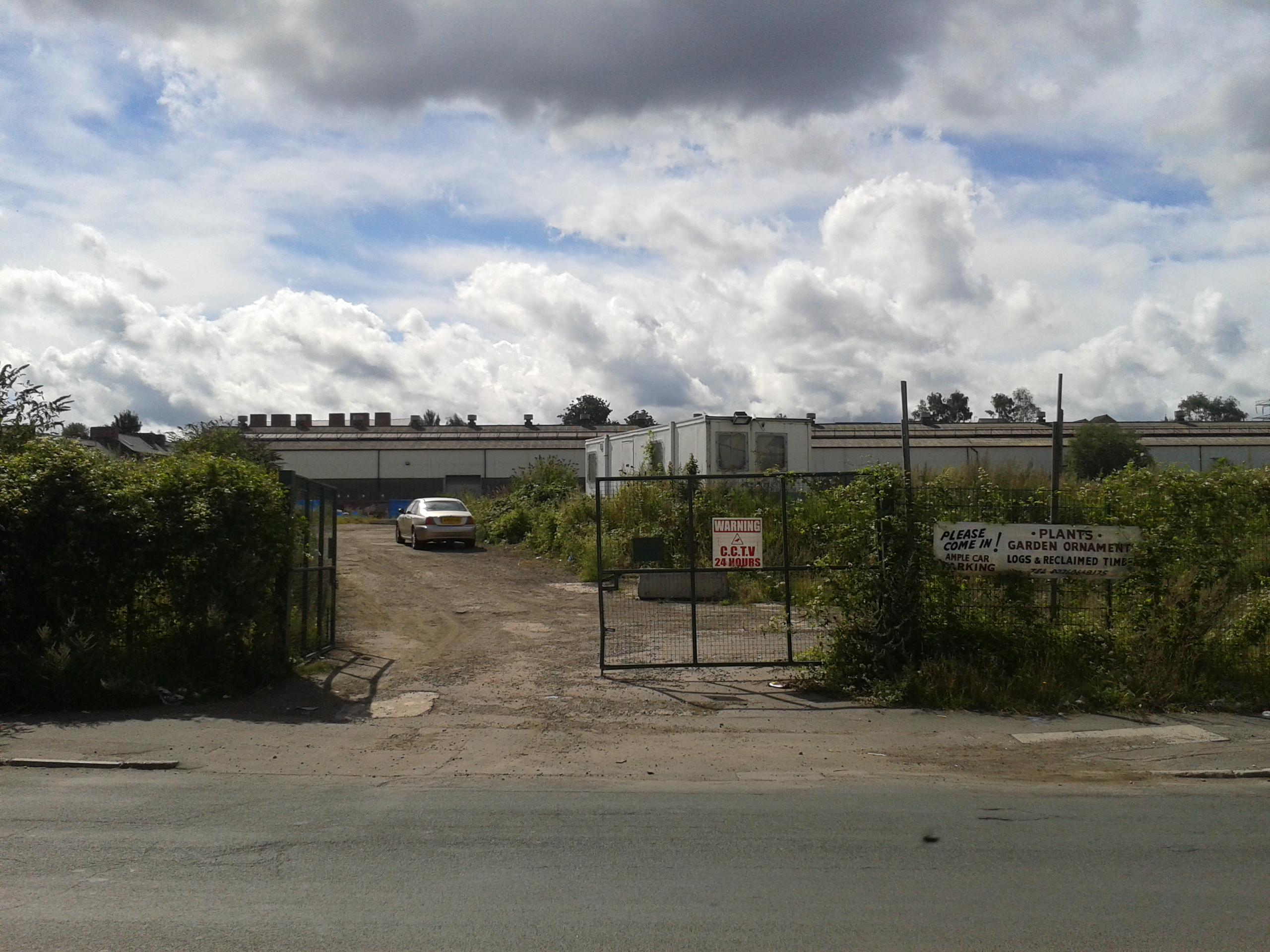 Main Building in the centre of the Sandersons Kaysers Darnall Works site in Sheffield